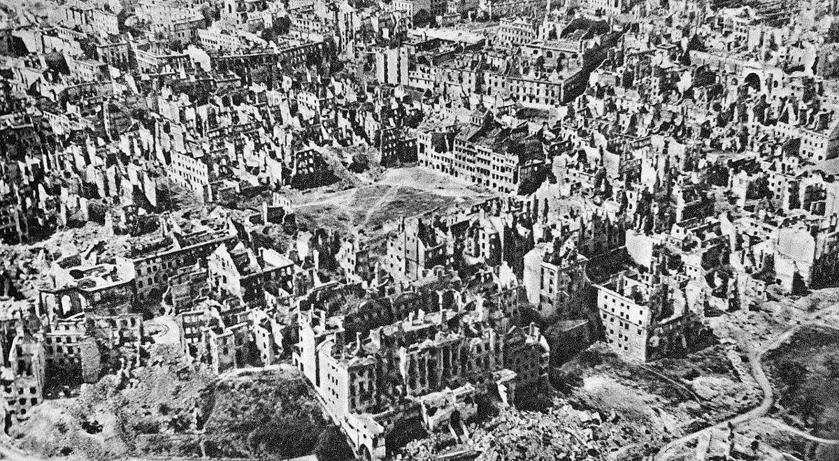 Warsaw, the capital of Poland, destroyed by German Nazis, January 1945.